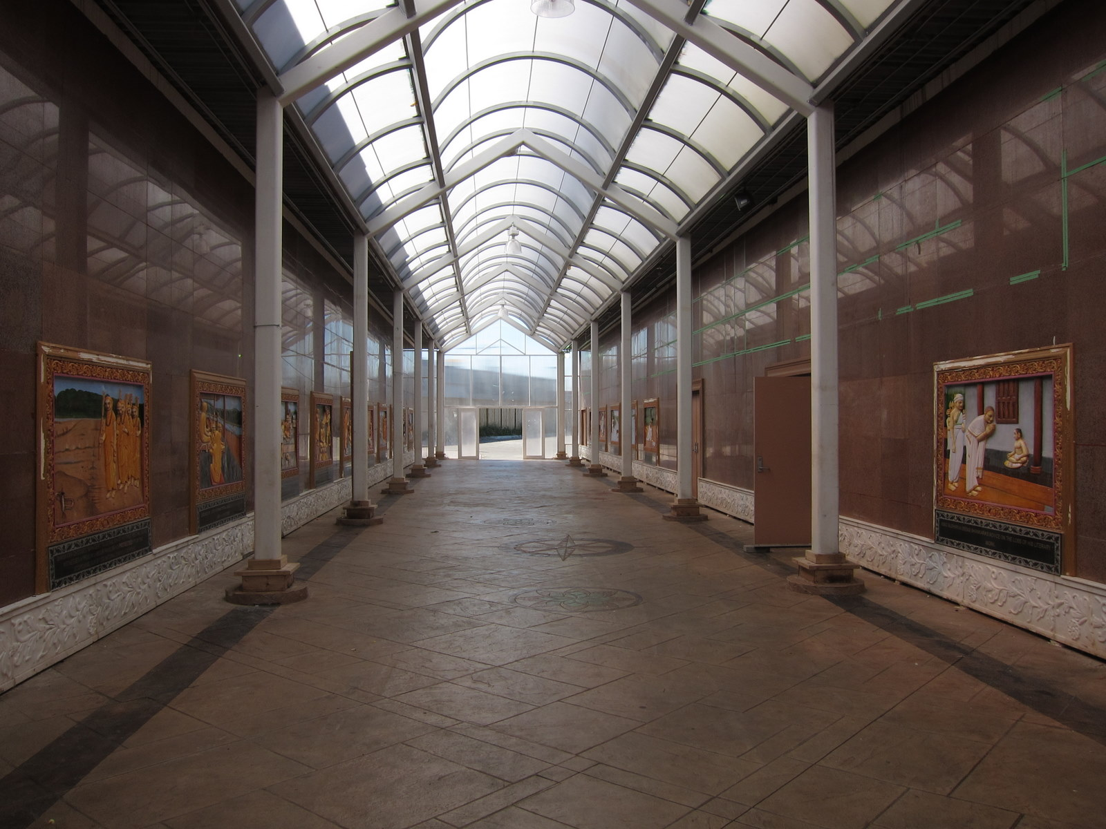 The ceremonial passageway depicting the main events in the life of Adi Shankaracharya on the sidewalls.